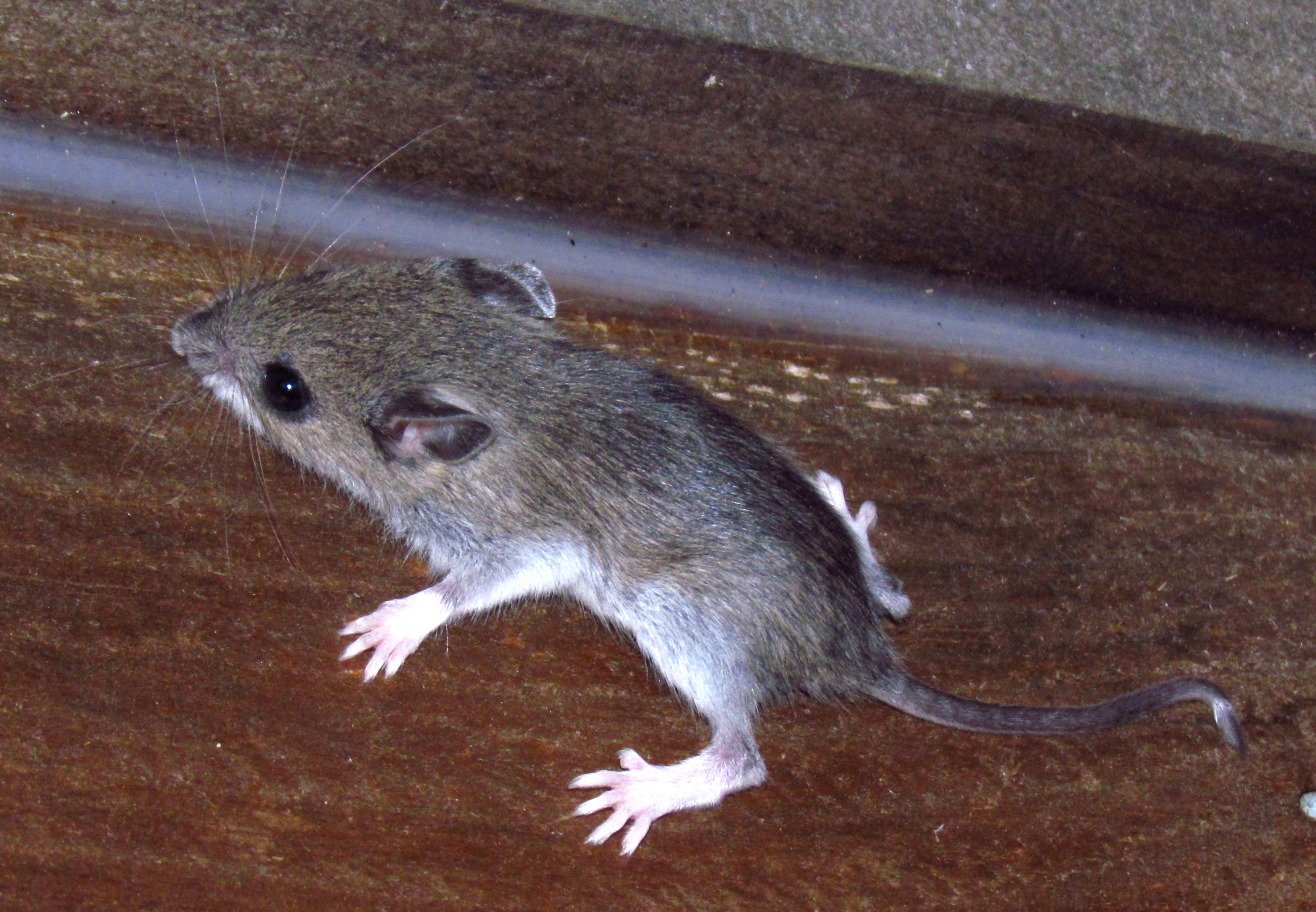 White-footed Mouse (Peromyscus leucopus), Cantley, Quebec